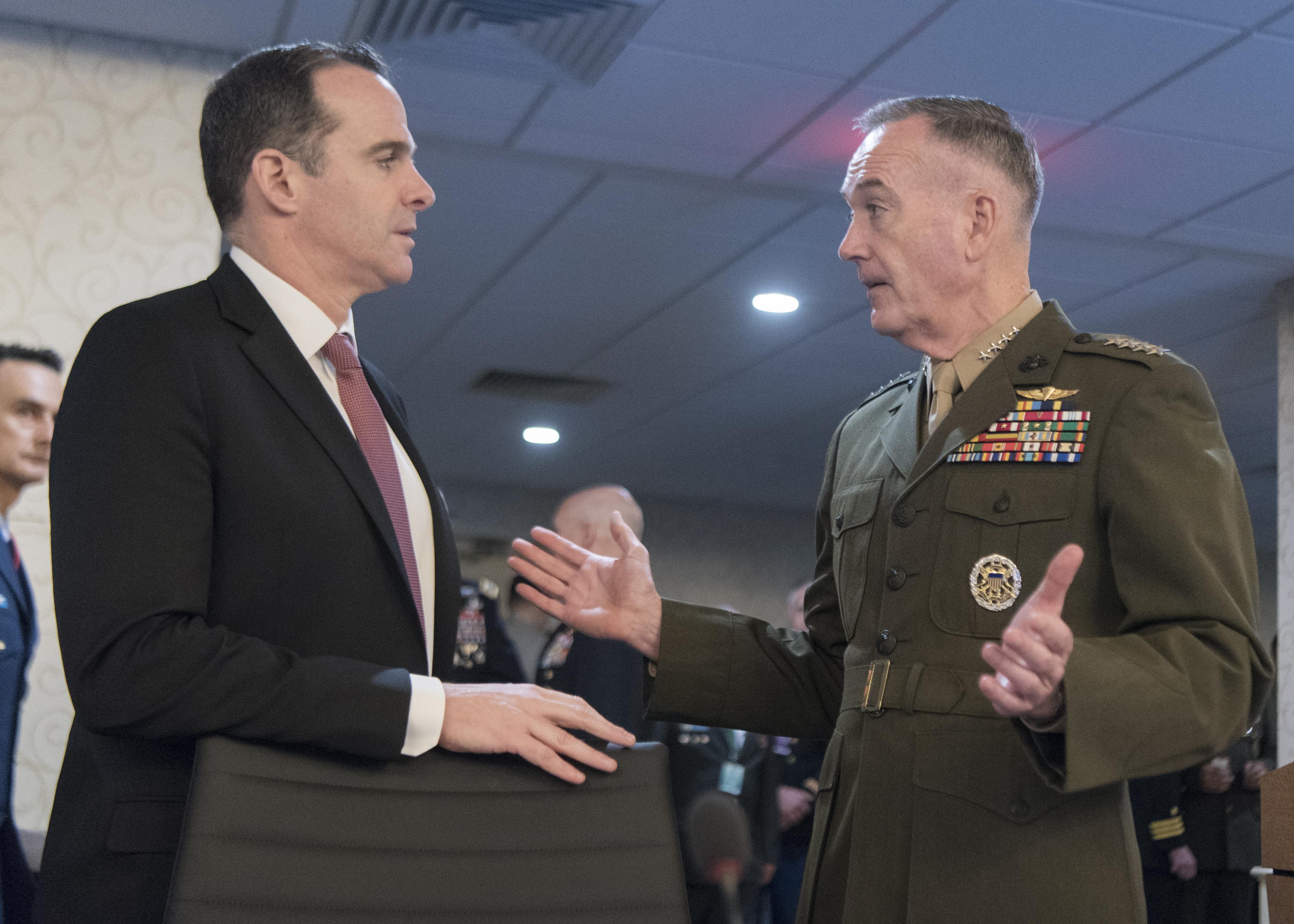 Marine Corps Gen. Joseph F. Dunford, Jr., chairman of the Joint Chiefs of Staff, speaks to special envoy for the Global Coalition to Counter the Islamic State of Iraq and Syria, Brett H. McGurk, during the 2017 Chiefs of Defense Conference at Fort Belvoir, Va., Oct. 24, 2017. The conference brought together defense chiefs from more than 70 nations to focus on countering violent-extremist organizations around the globe. (DOD photo by U.S. Navy Petty Officer 1st Class Dominique A. Pineiro)